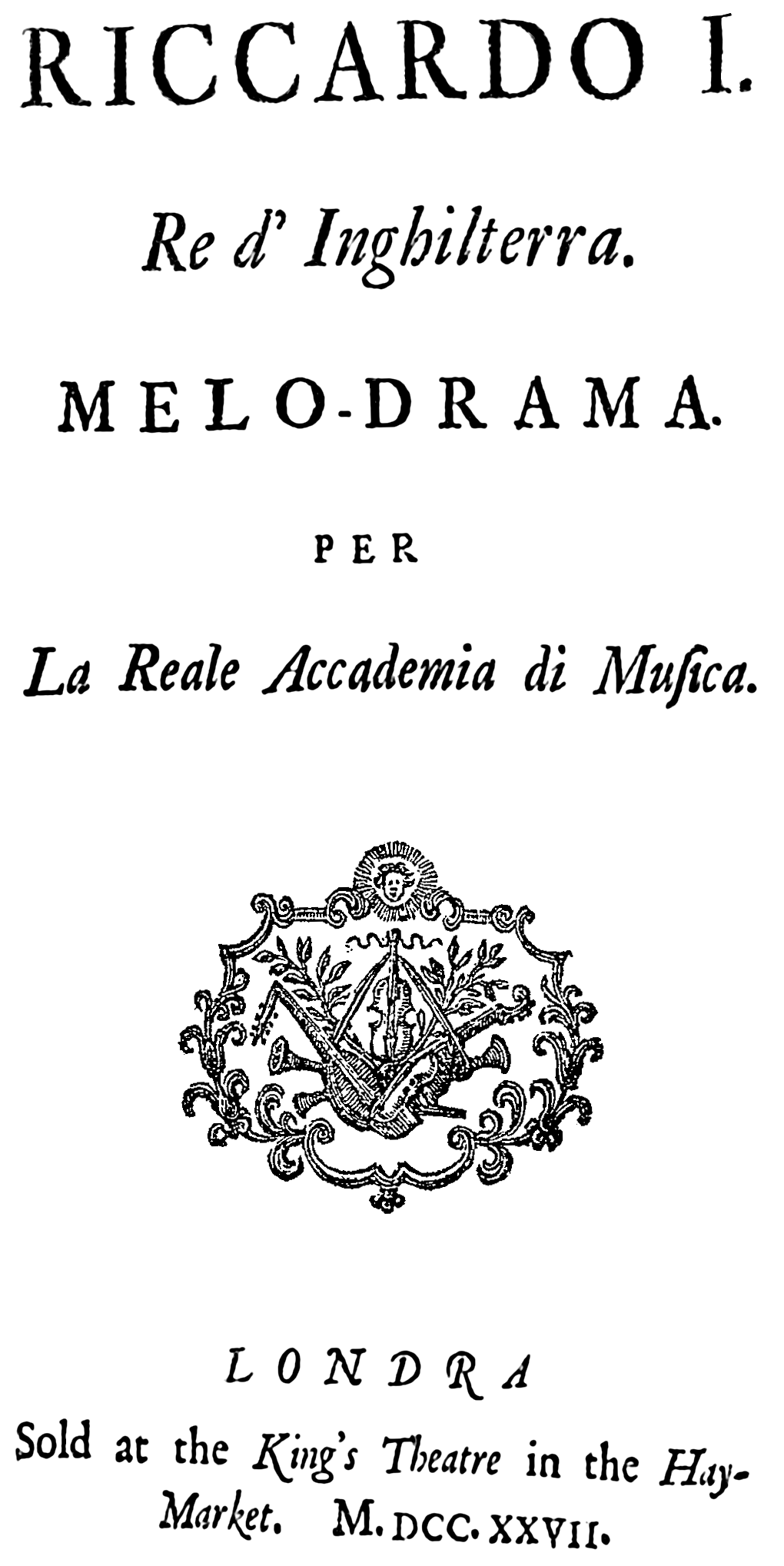 Georg Friedrich Händel - Riccardo Primo - title page of the libretto - London 1727